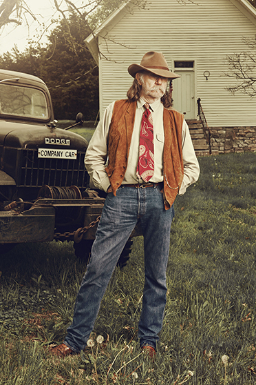 Colonel Littleton standing in front of the old schoolhouse and his Power Wagon on Foxfire Farm.